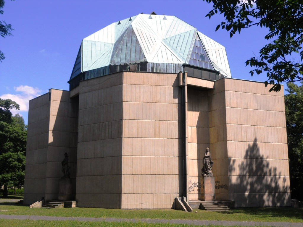 J. Sokol, Pavillon in Duchcov Castle park (1966)